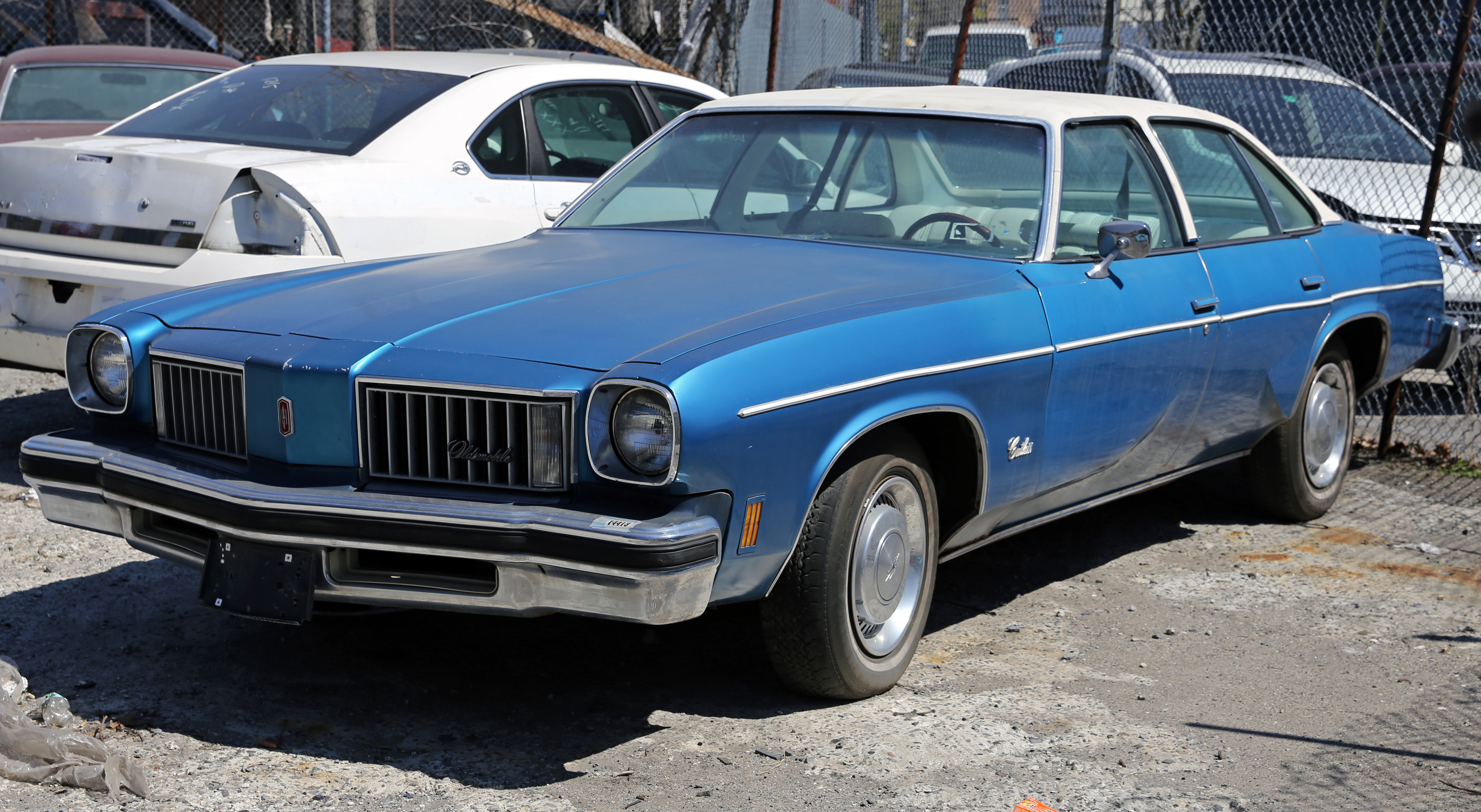 1975 Oldsmobile Cutlass four-door sedan. This is the base version, unusual nowadays.